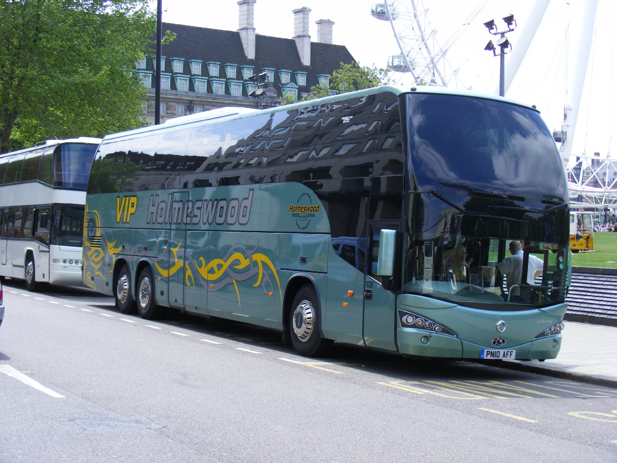 Description here Company founded in 1947 as on the company's website with details of the vehicles operated here